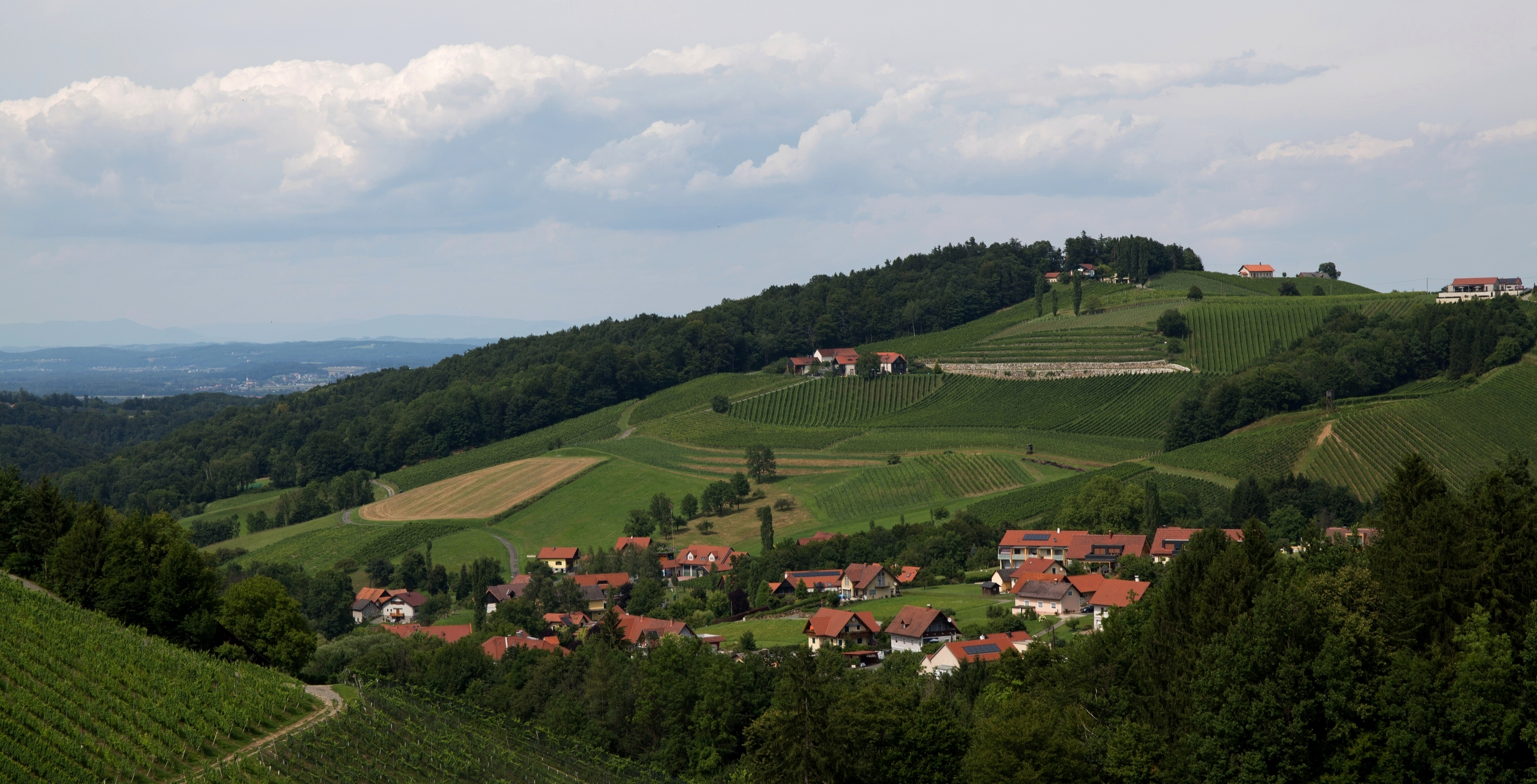 The village Ratsch an der Weinstraße, Styria, Austria, near the border to Slovenia Ratsch an der Weinstraße